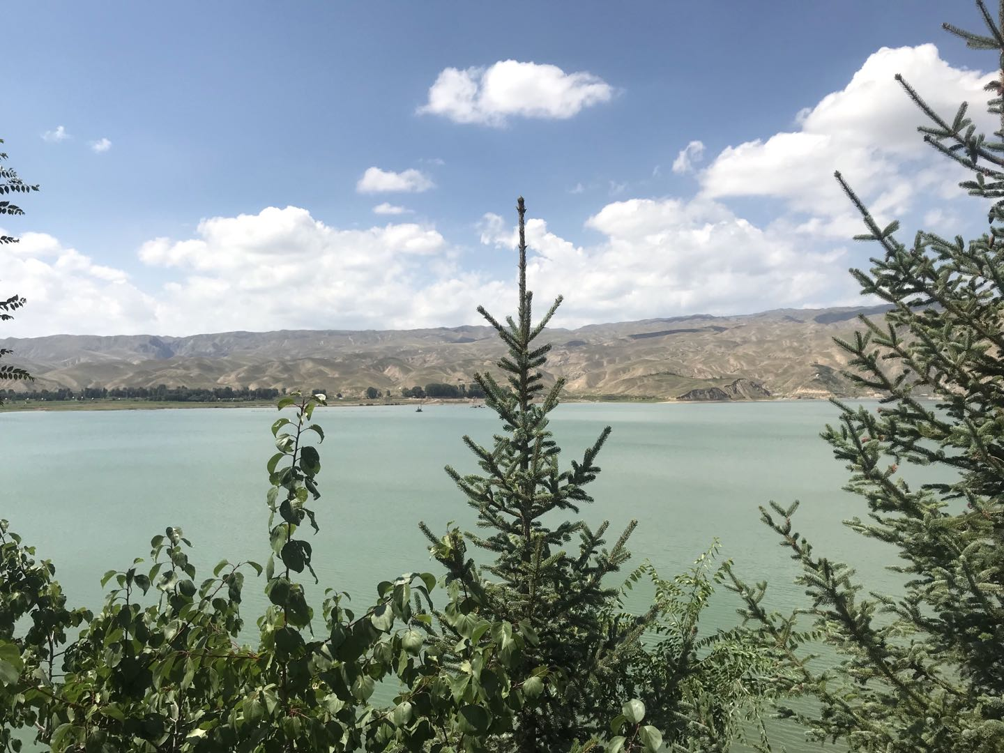 Huangyanghe reservoir in Wuwei, Gansu